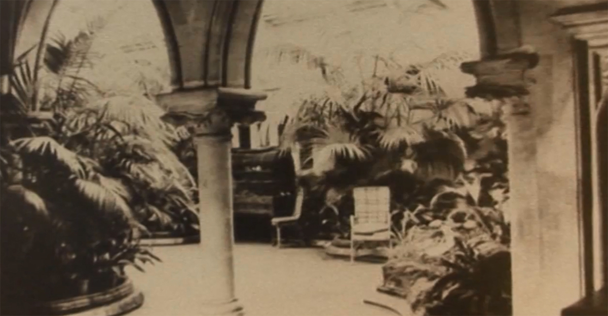 The Winter Garden at Ashton Court circa 1900